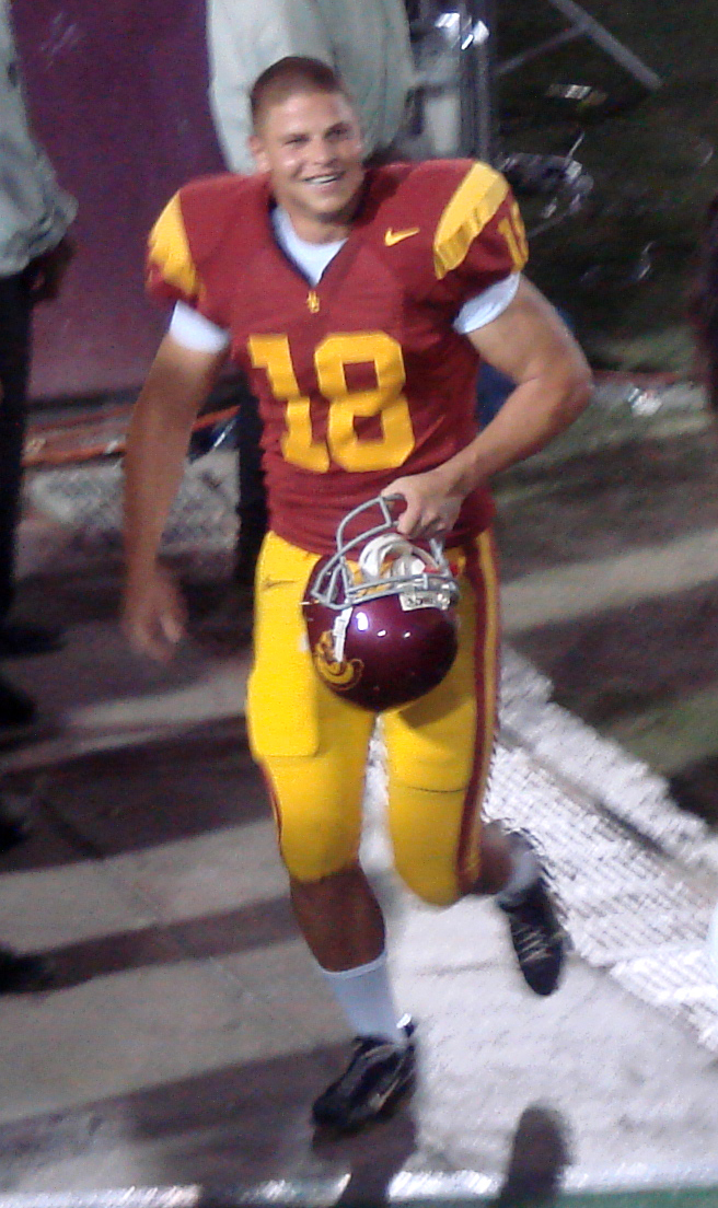 Placekicker David Buehler runs off the field after a USC victory.